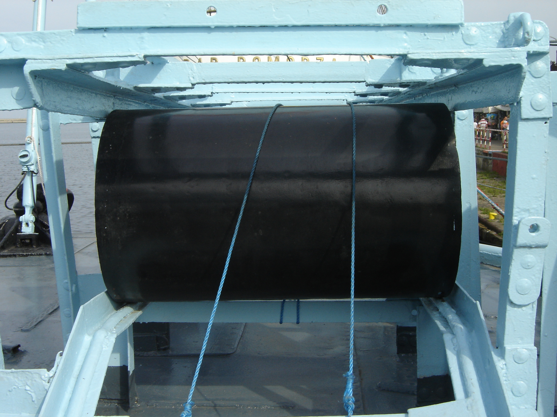 Depth charge rack upon Polish destroyer ORP Błyskawica